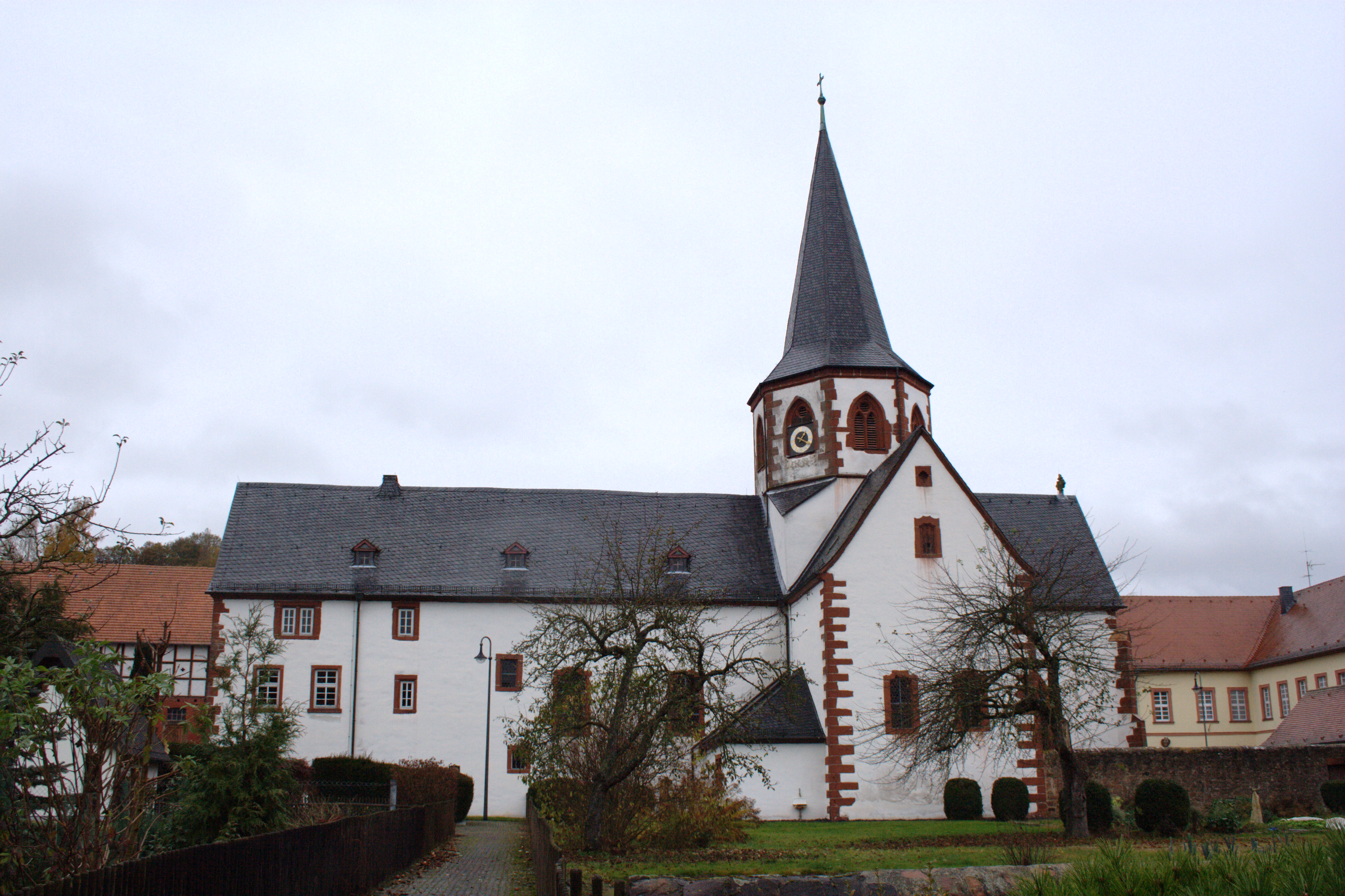 Church in Blankenau, Hosenfeld, Hessen, Germany.